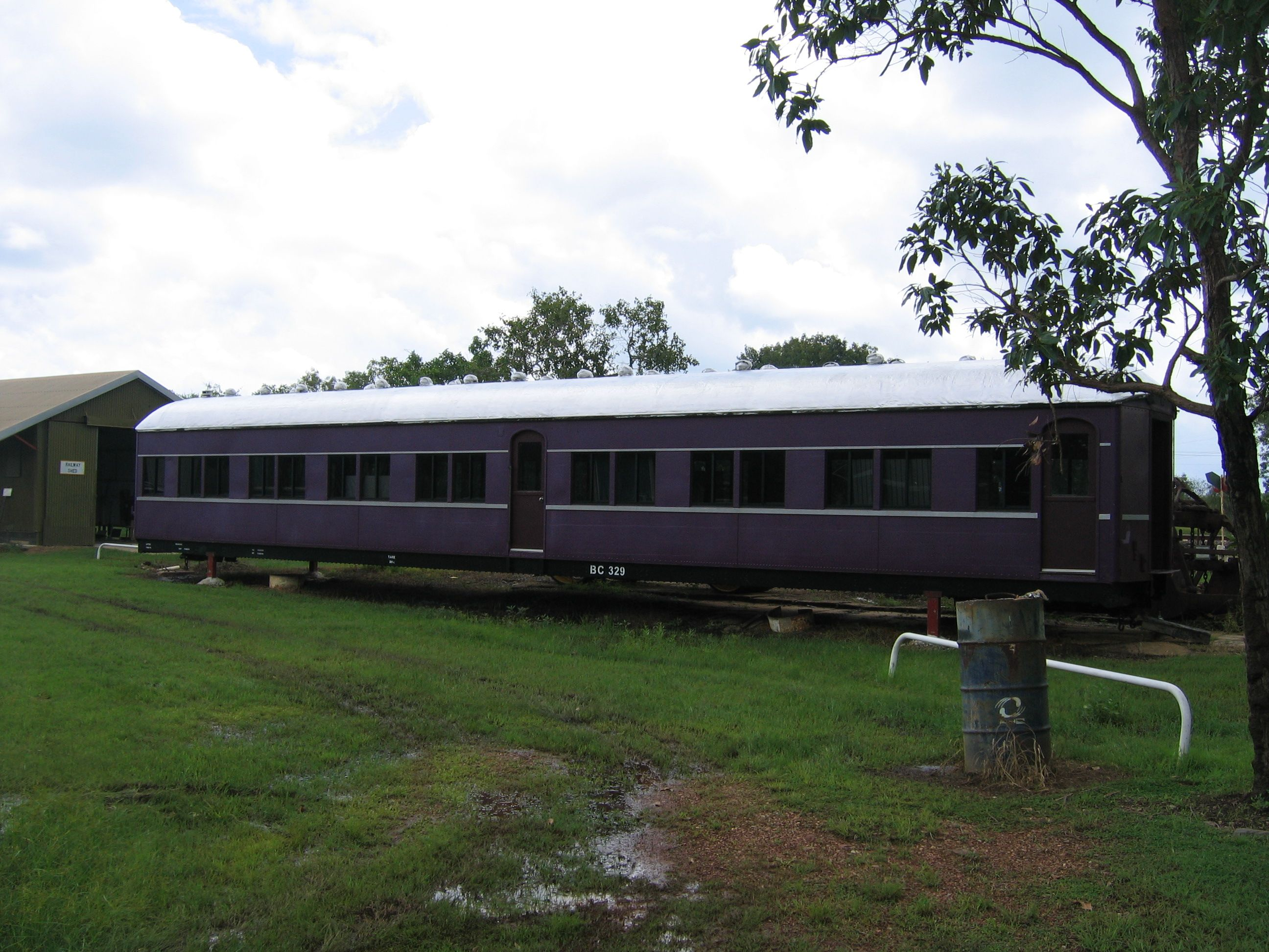 Passenger Car North Australia Railway